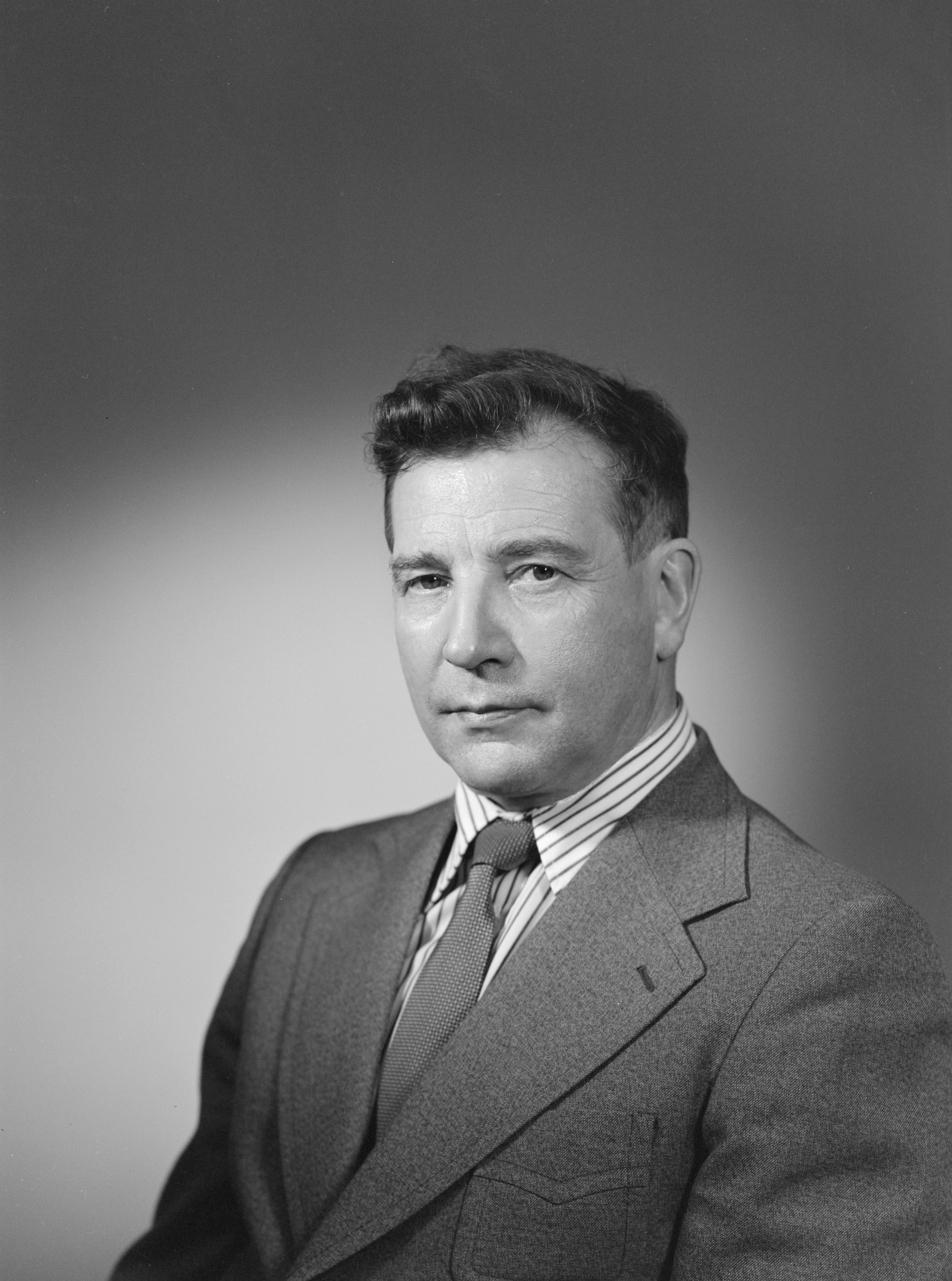 Photograph of the Finnish food scientist Matti Antila (1926–2015).